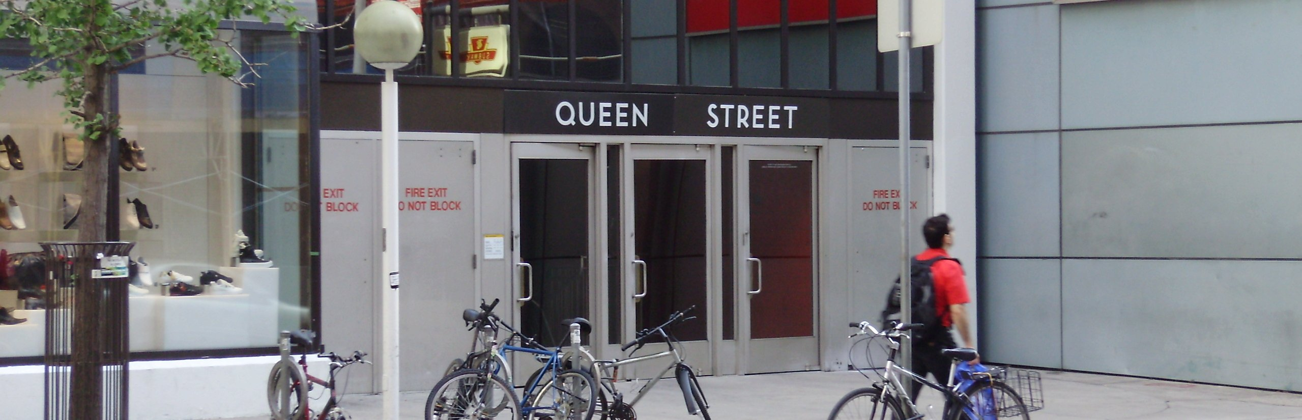 The Toronto Transit Commission's Queen subway station in Toronto, Ontario, Canada.